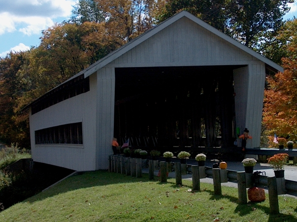 A photograph of Giddings Road Covered Bridge, located in Ashtabula County, Ohio.